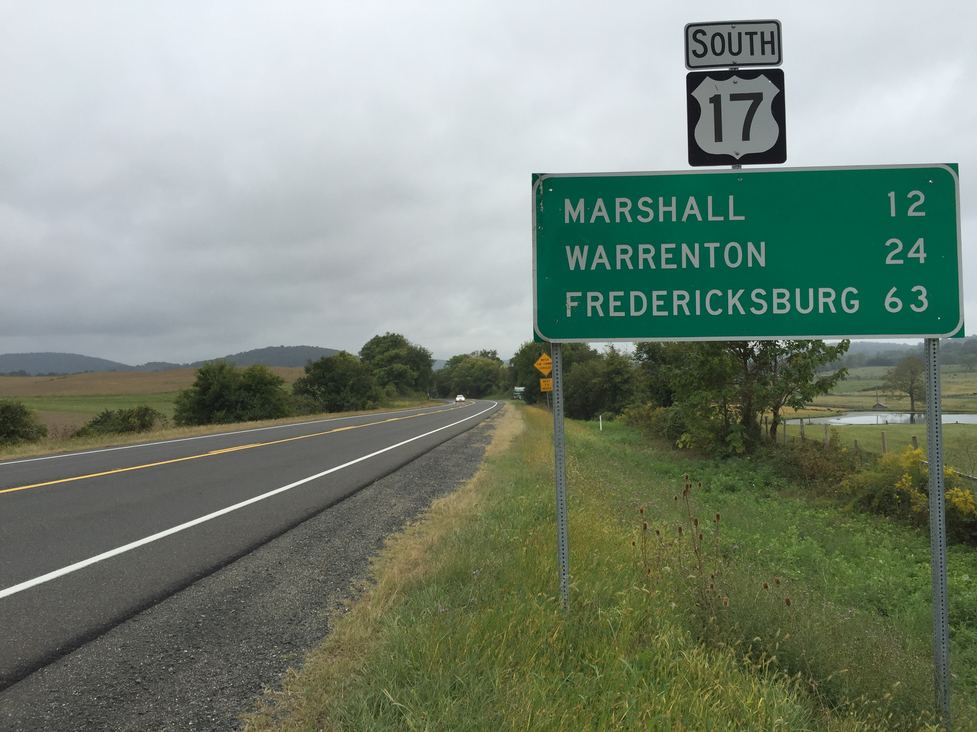 View south along U.S. Route 17 (Winchester Road) between U.S. Route 50 (John Mosby Highway) and Gap Run Road (Virginia State Secondary Route 701) in Paris, Fauquier County, Virginia